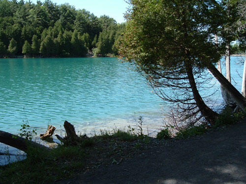 This photograph was taken by Wikipedia user Ebedgert.